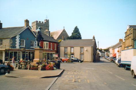 Tregaron Market Place The centre of what is possibly the quietest town in Wales.